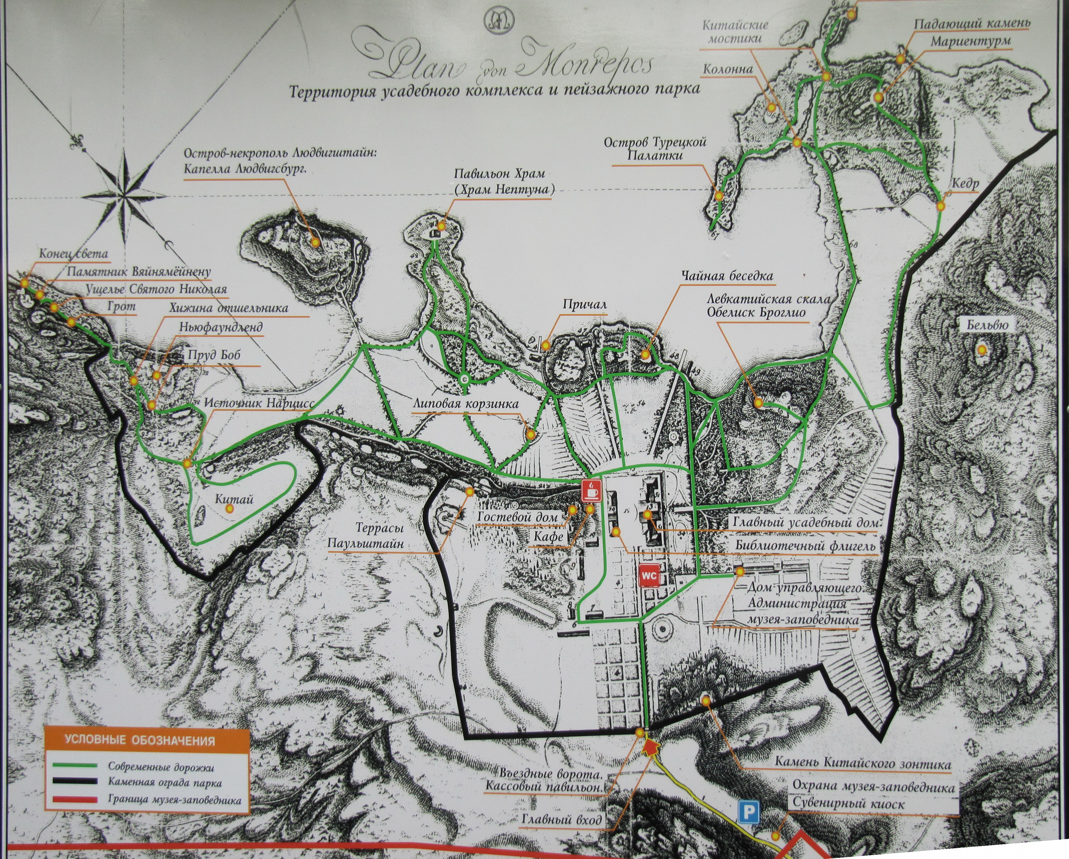 Mon Repos is landscaped english park in Vyborg.The park occupies about 180 hectares of land.